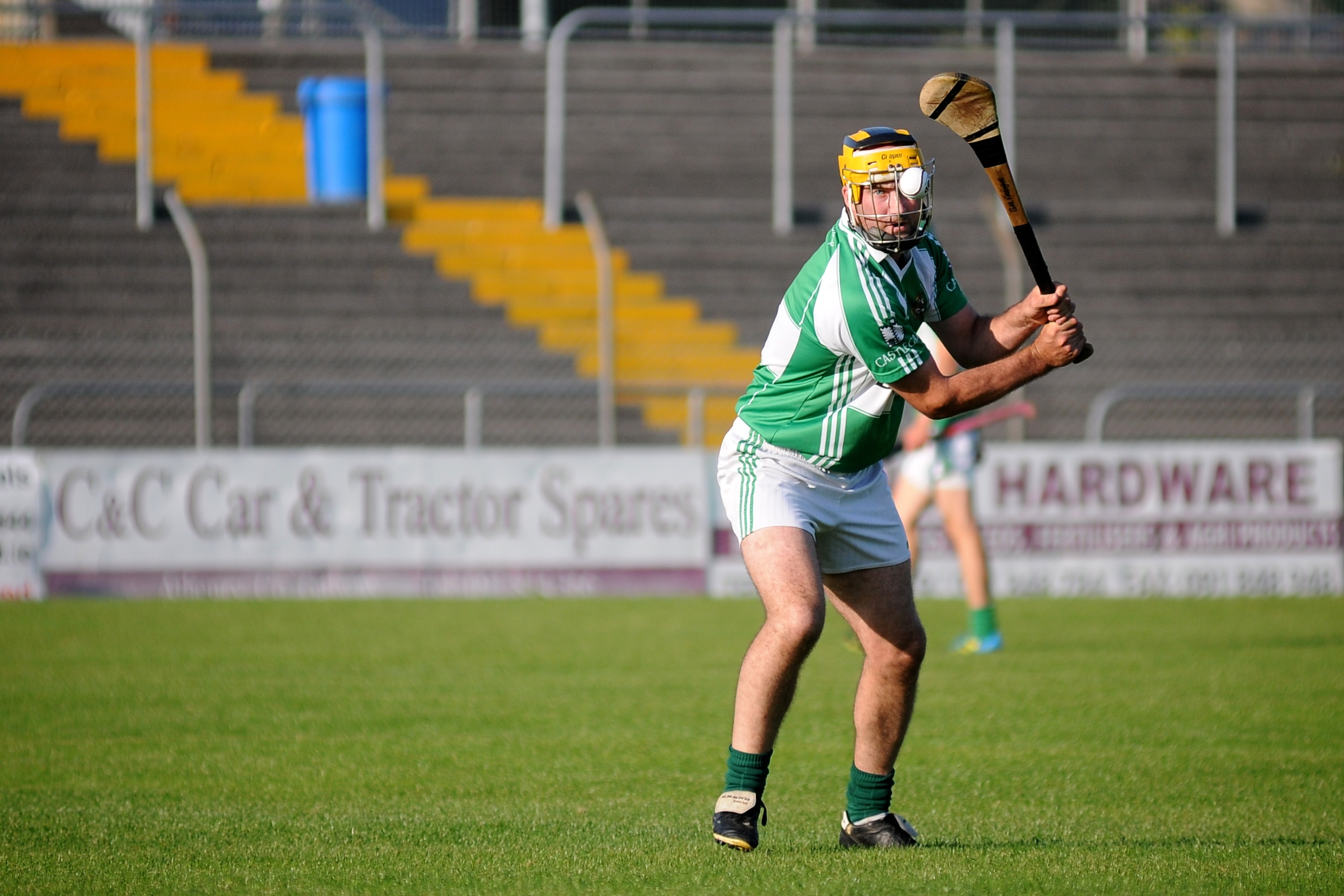 Ger Farragher in action for Castlegar against Kinvara in the 2013 Galway Senior hurling Championship in Athenry